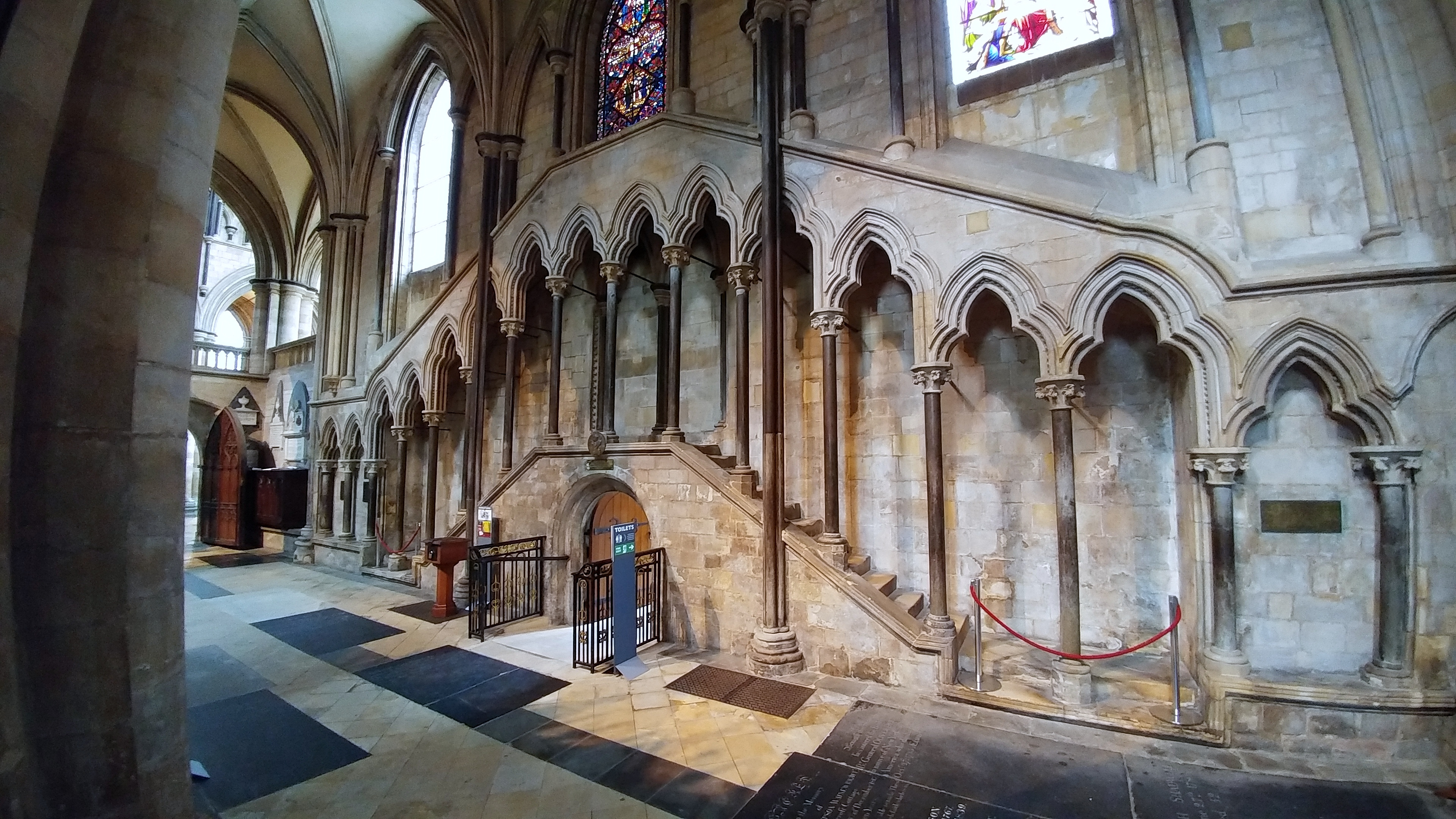 Beverley Minster